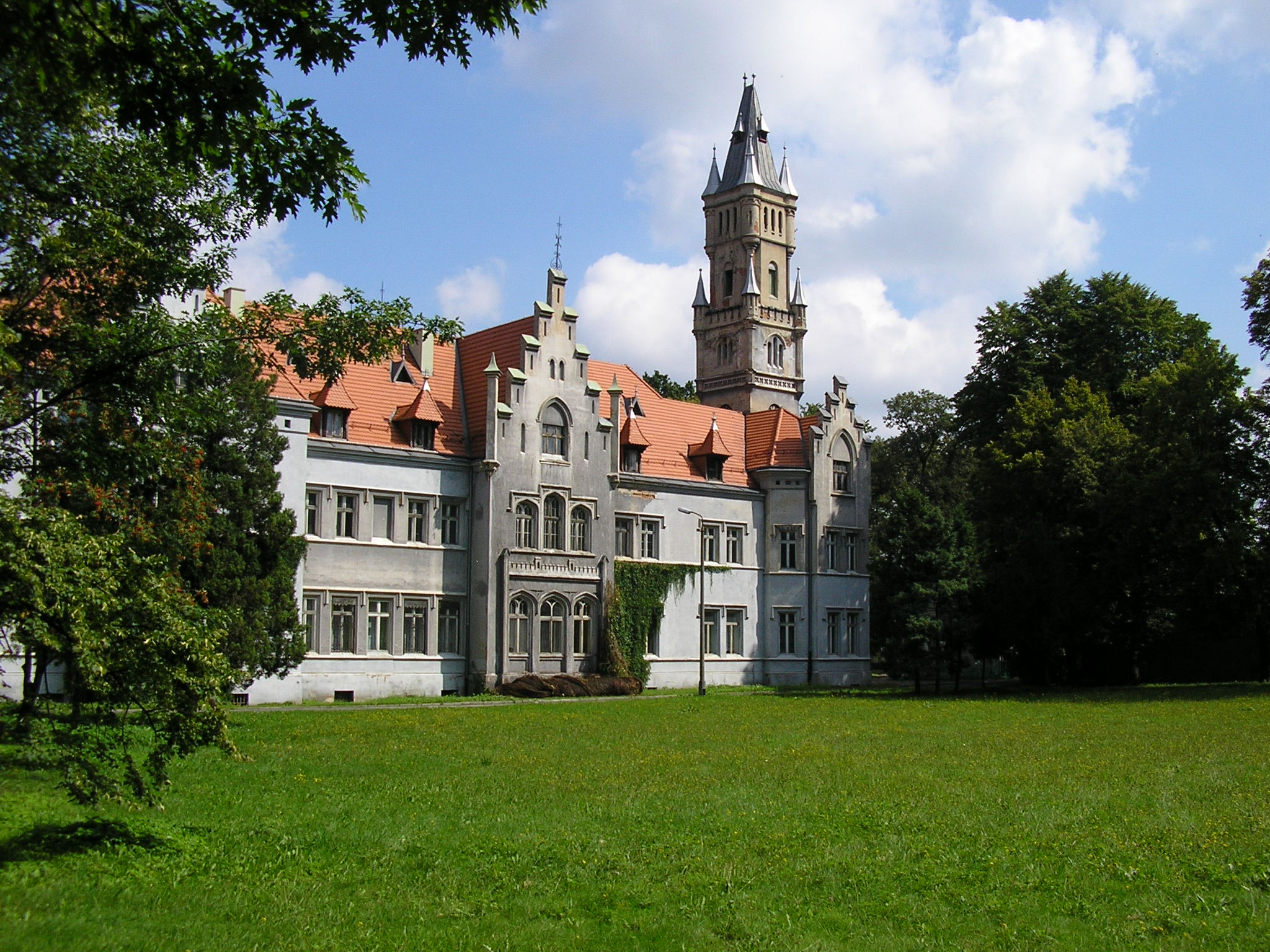 Neogothic palace of Donnersmarck family in Nakło Śląskie, Poland.